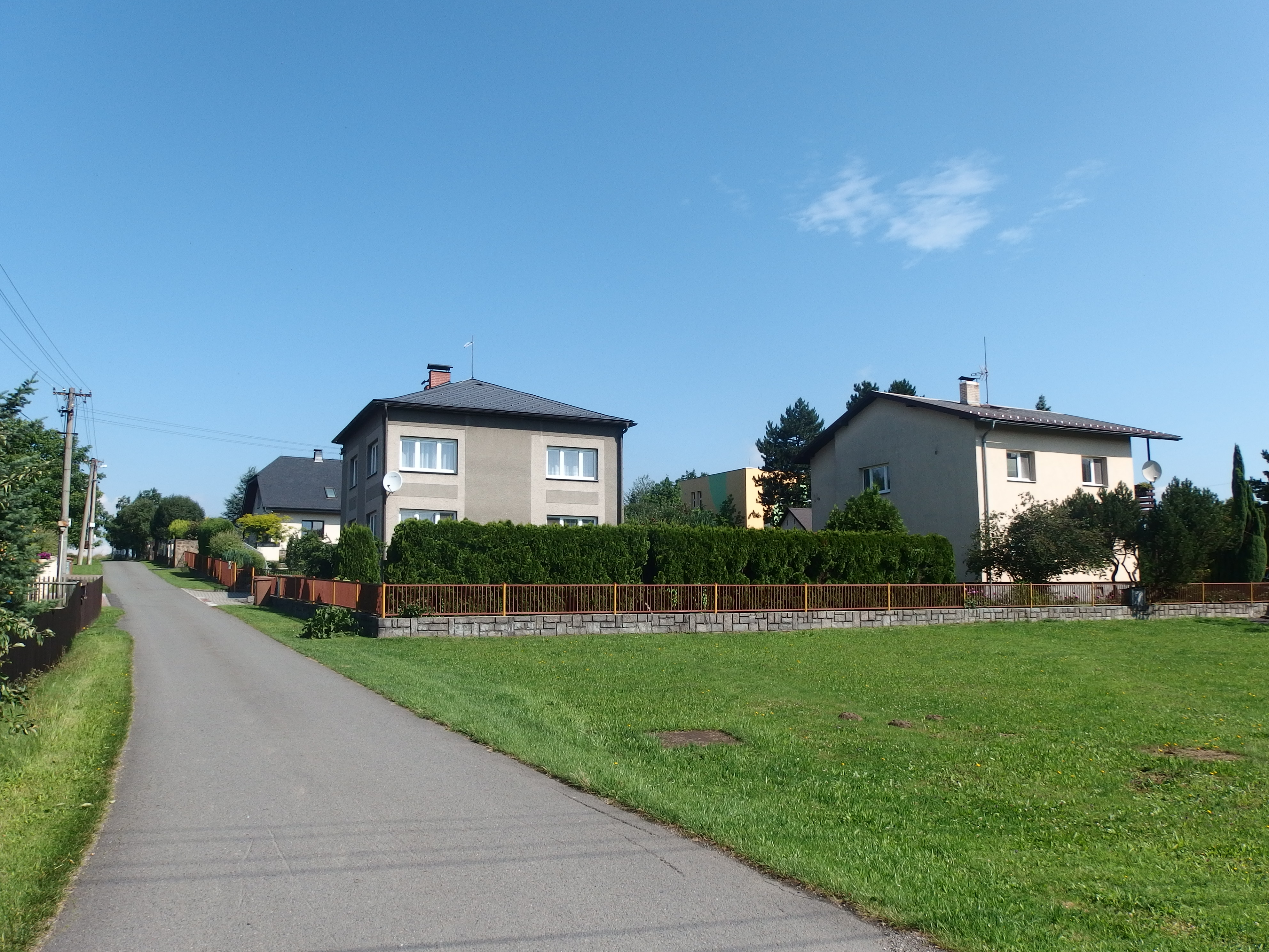 Vratimov, Ostrava-City District, Czech Republic, part Horní Datyně.